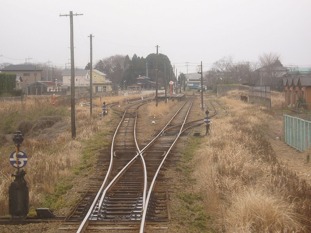 Kashima Railway Enomoto Sta.